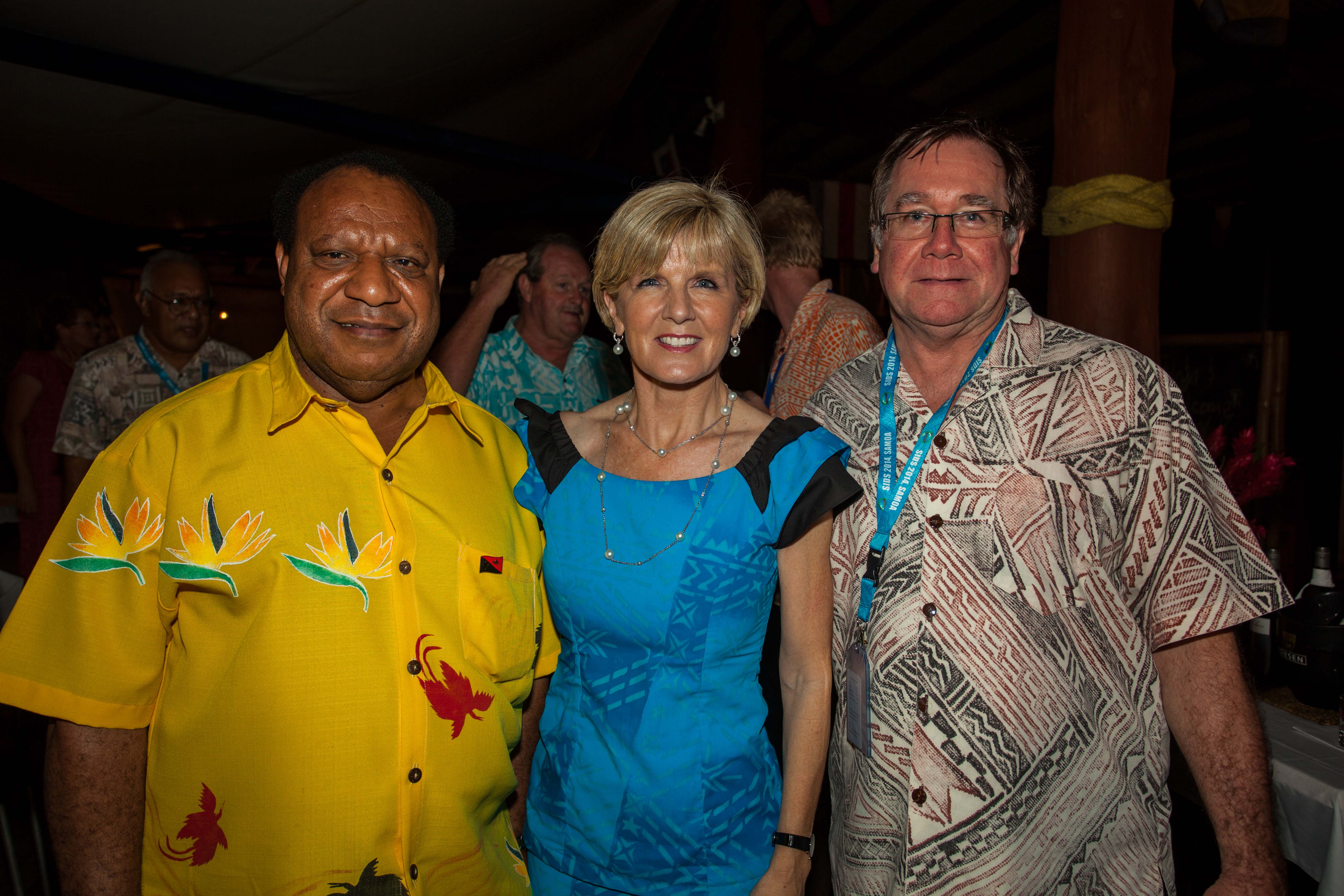 Rimbink Pato, Julia Bishop and Murray McCully at SIDS 2014